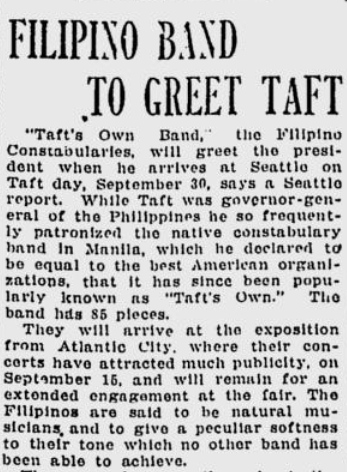 6SEP1909 edition of the Spokane Daily Chronicle